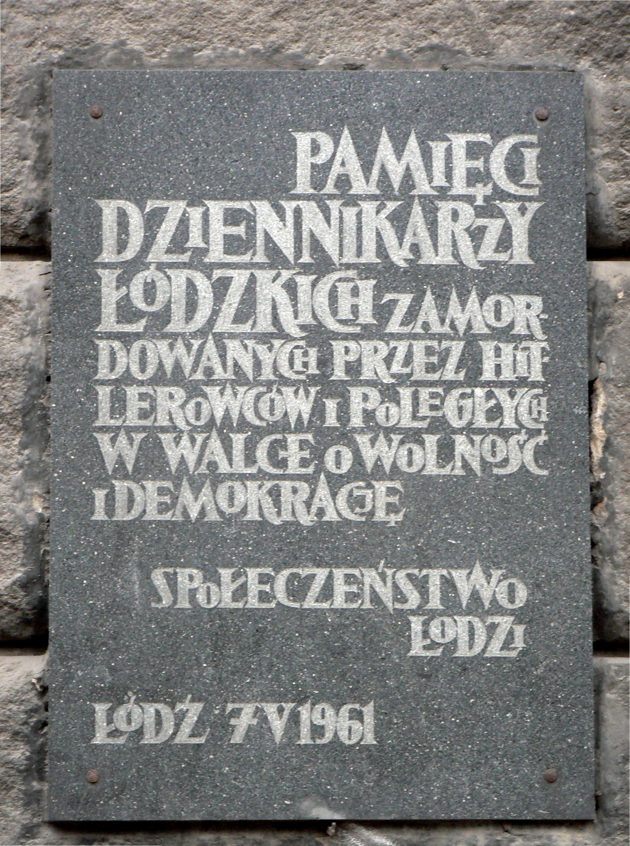 Commemorative plaque of journalists from Łódź, murdered by Nazi, located on the building of former Siemens office in Łódź at Piotrkowska Street 96.